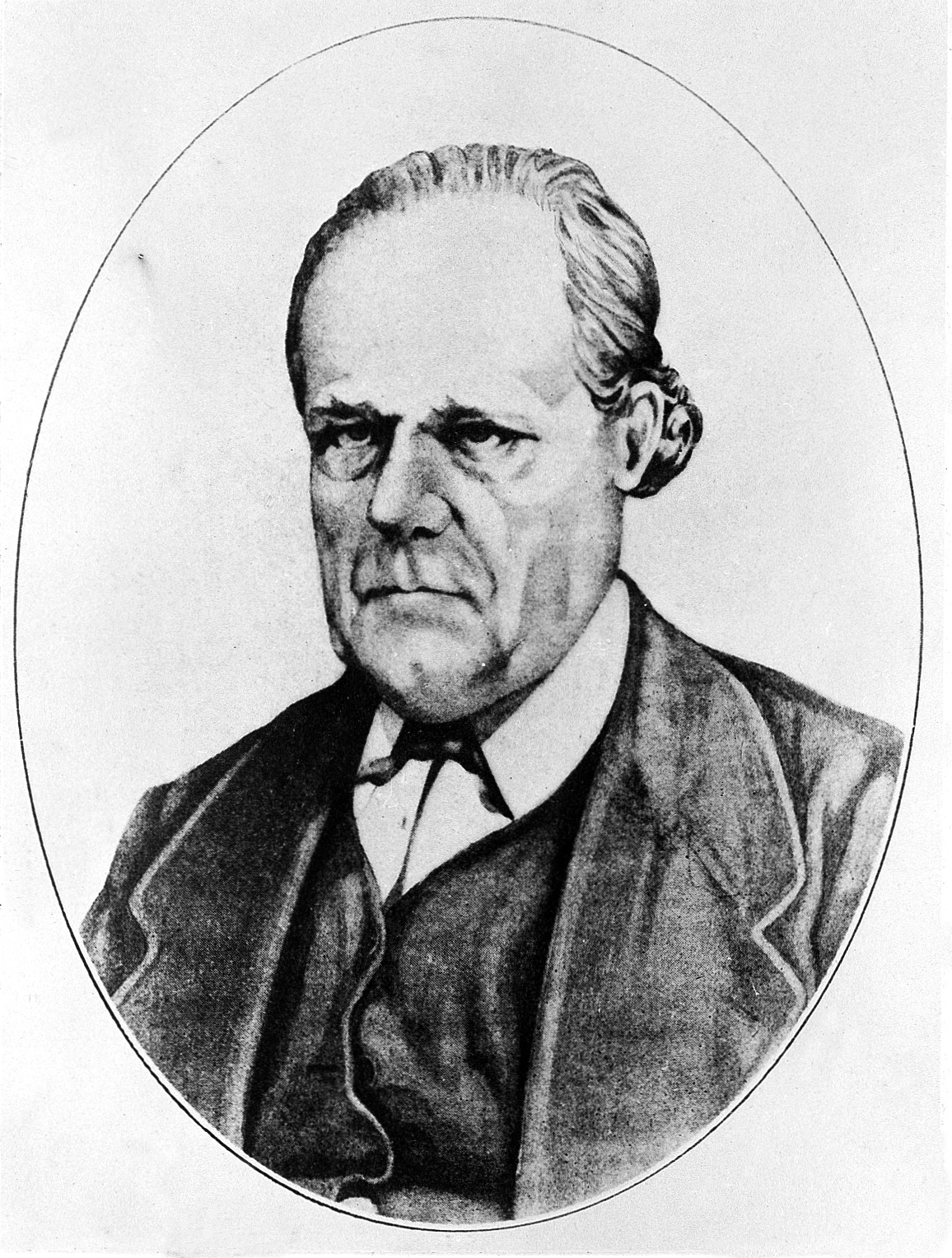 Portrait of Louis Daniel Beauperthuy, reproduction from a photograph in the Wellcome Institute. Wellcome Images Keywords: Portraiture; Louis Daniel Beauperthuy